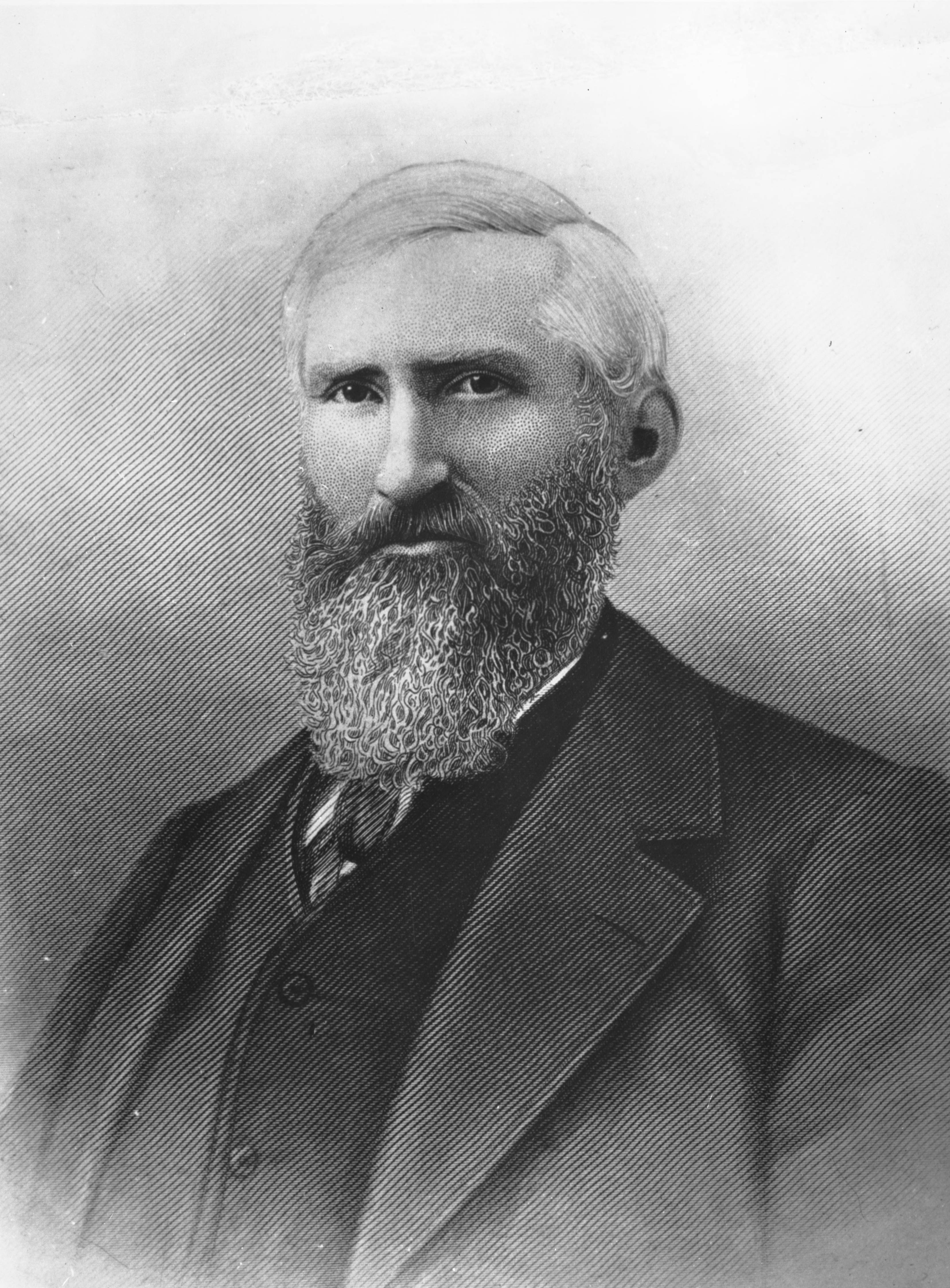 Photograph of an engraving(?) of a portrait of John Reid Wolfskill. He can be seen from the chest up facing straight ahead with his shoulders turned slightly to the left. He has a full beard and mustache, while his short hair is combed to the left. He is wearing a three-piece suit with long tie. Wolfskill was the first American white settler in Solano County. A noted fruit grower and cattleman, he settled in California in 1842.